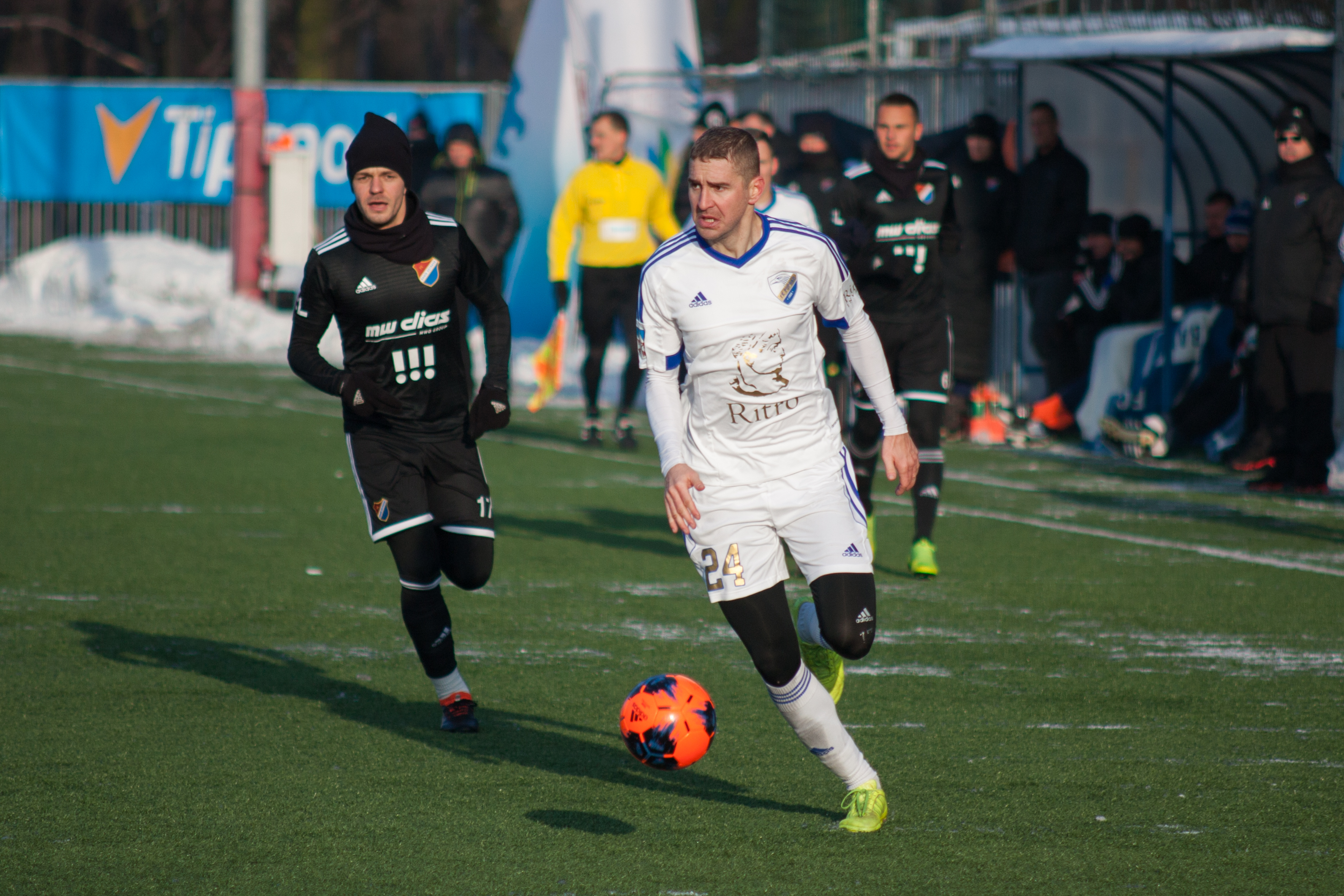 Czech Winter Tipsport League match FC Baník Ostrava-FK Poprad played on 11 January 2019